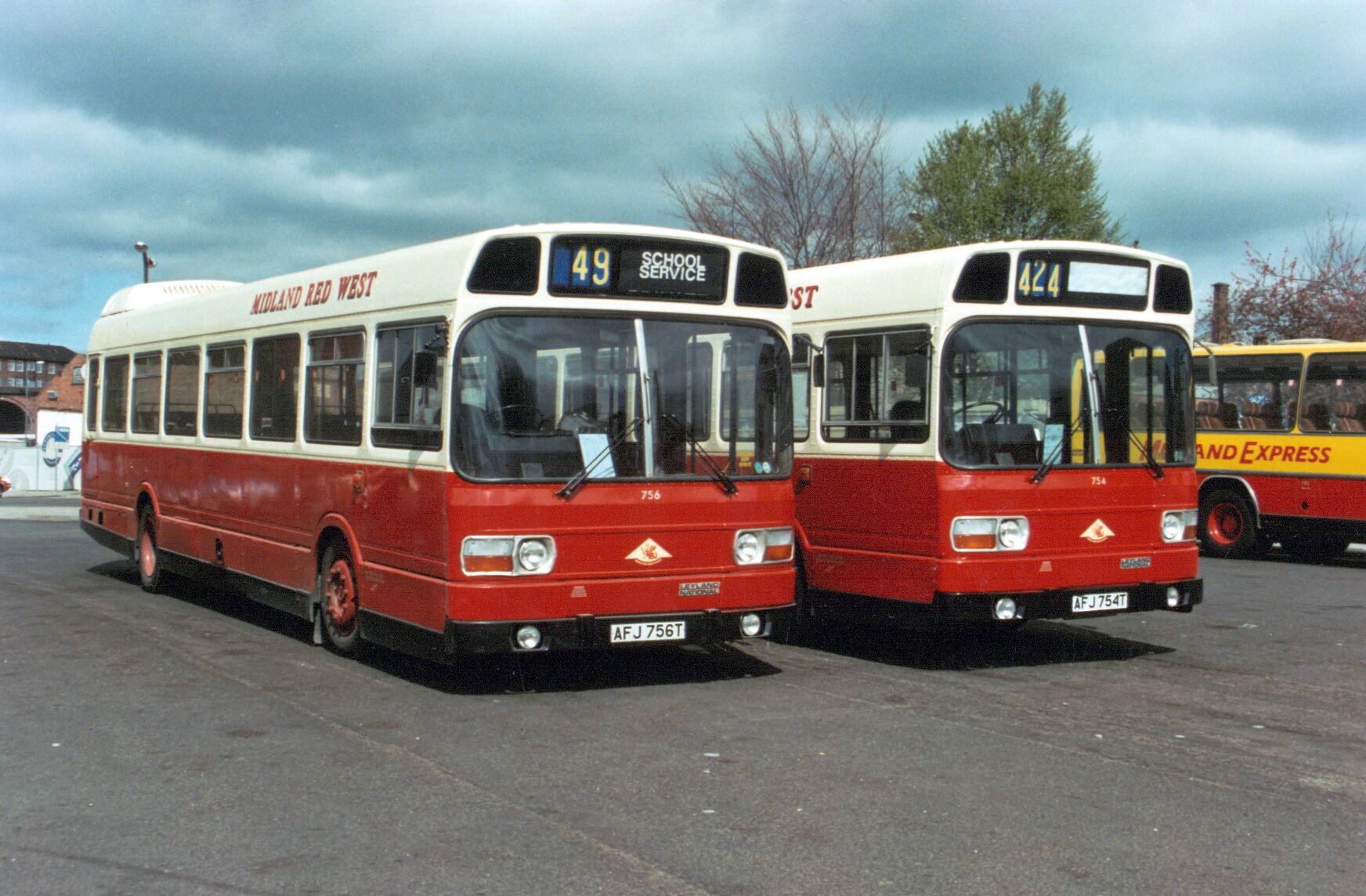 Two of three acquired Western National ones.